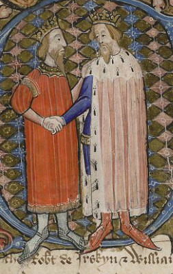 An excerpt from folio 66v of British Library MS Cotton Nero D VI showing David II, King of Scotland (pictured left) and Edward III, King of England (pictured right).